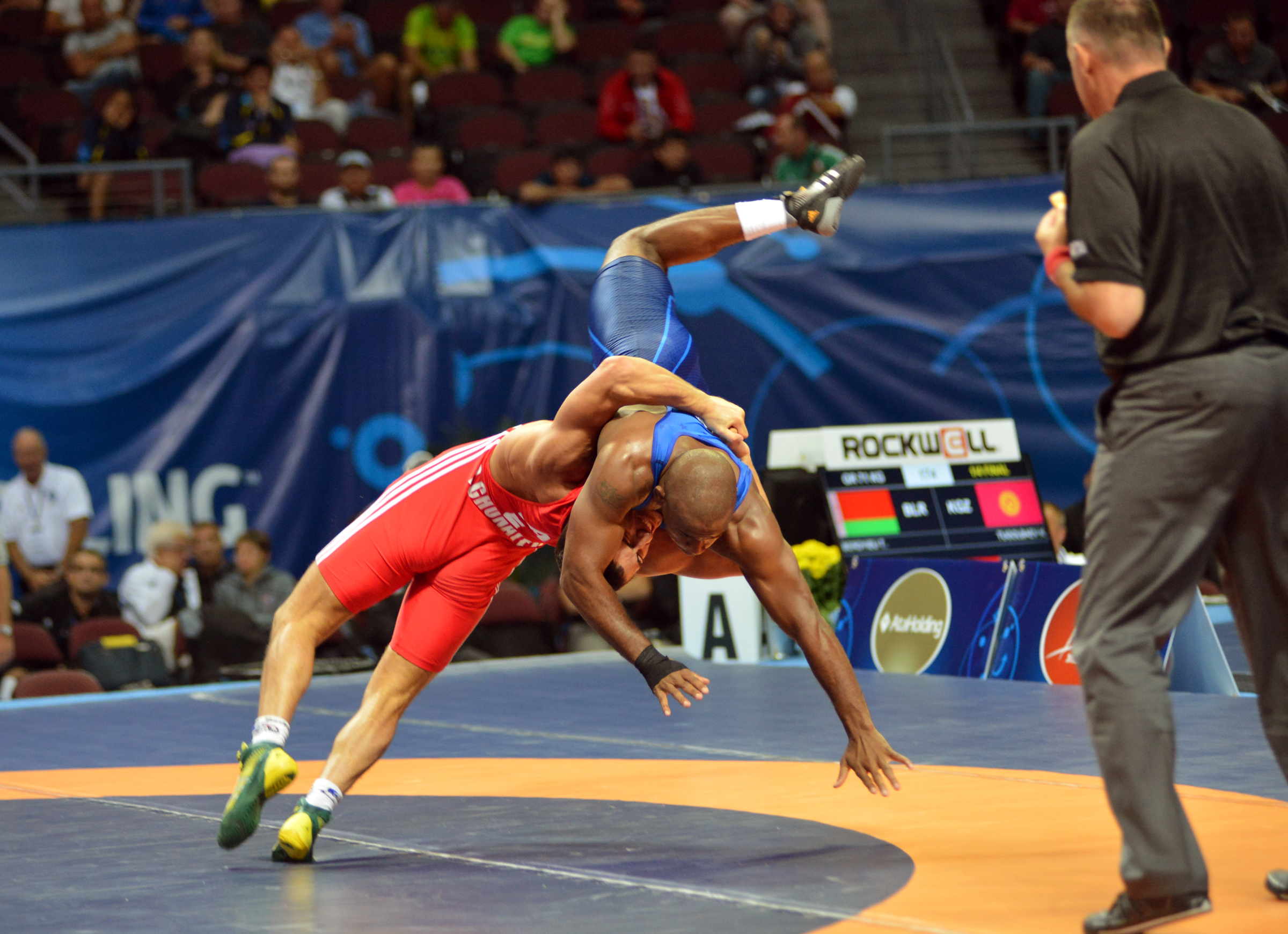 Azerbaijan's Rasul Chunayev, ranked No. 1 in the world in the 71-kilogram Greco-Roman division, throws Sgt. Justin "Harry" Lester of the U.S. Army World Class Athlete Program in the quarterfinals of the 2015 World Wrestling Championships on Tuesday at the Orleans Arena in Las Vegas. Chunayev posted a 9-0 technical superiority victory over Lester. Chunayev later gave Lester new life in the tournament by advancing to the finals via an 8-0 victory over Tsimur Berdyieu of Belarus, sending Lester into the repechage. U.S. Army photo by Tim Hipps, IMCOM Public Affairs